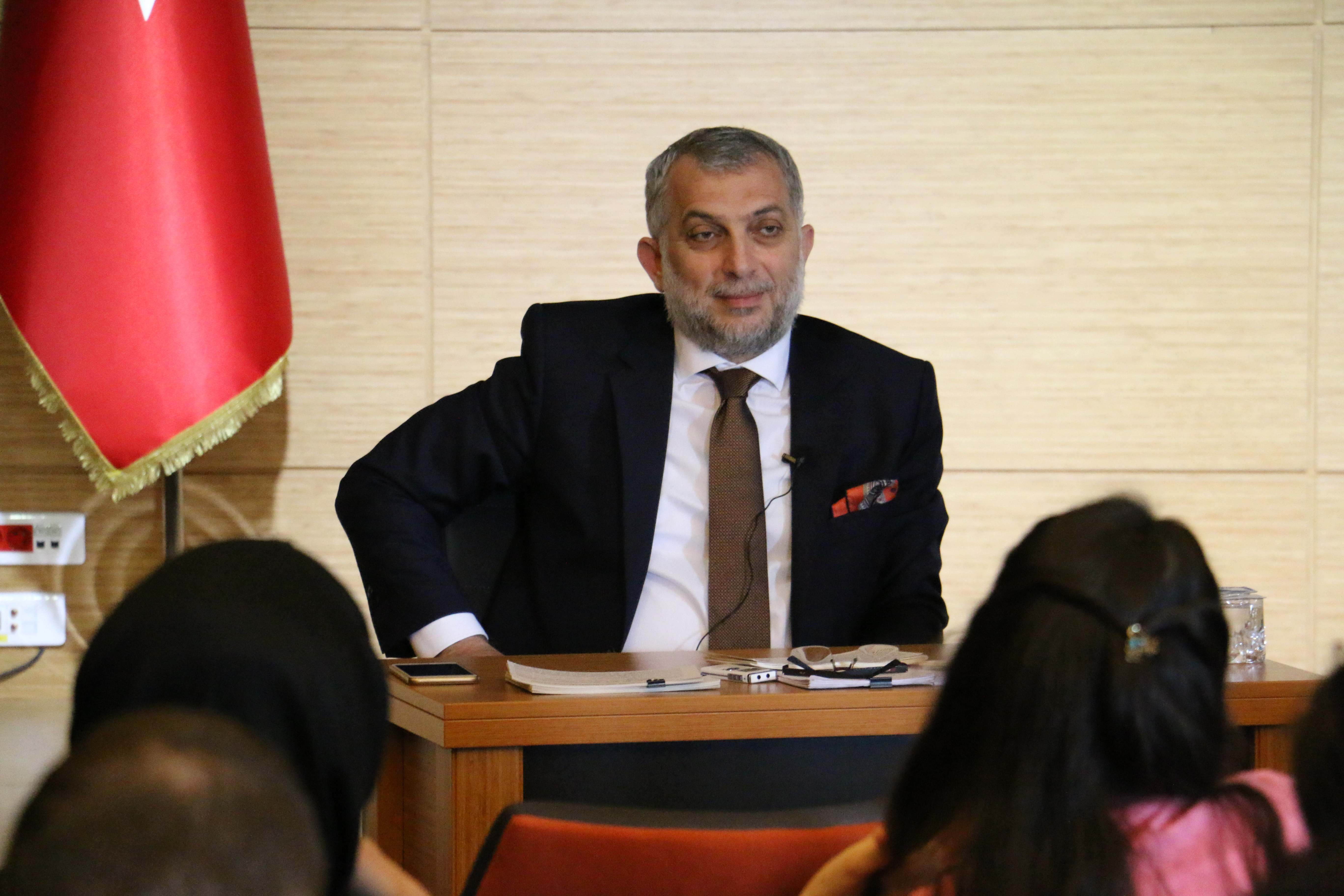 Turkish Politician Metin Külünk